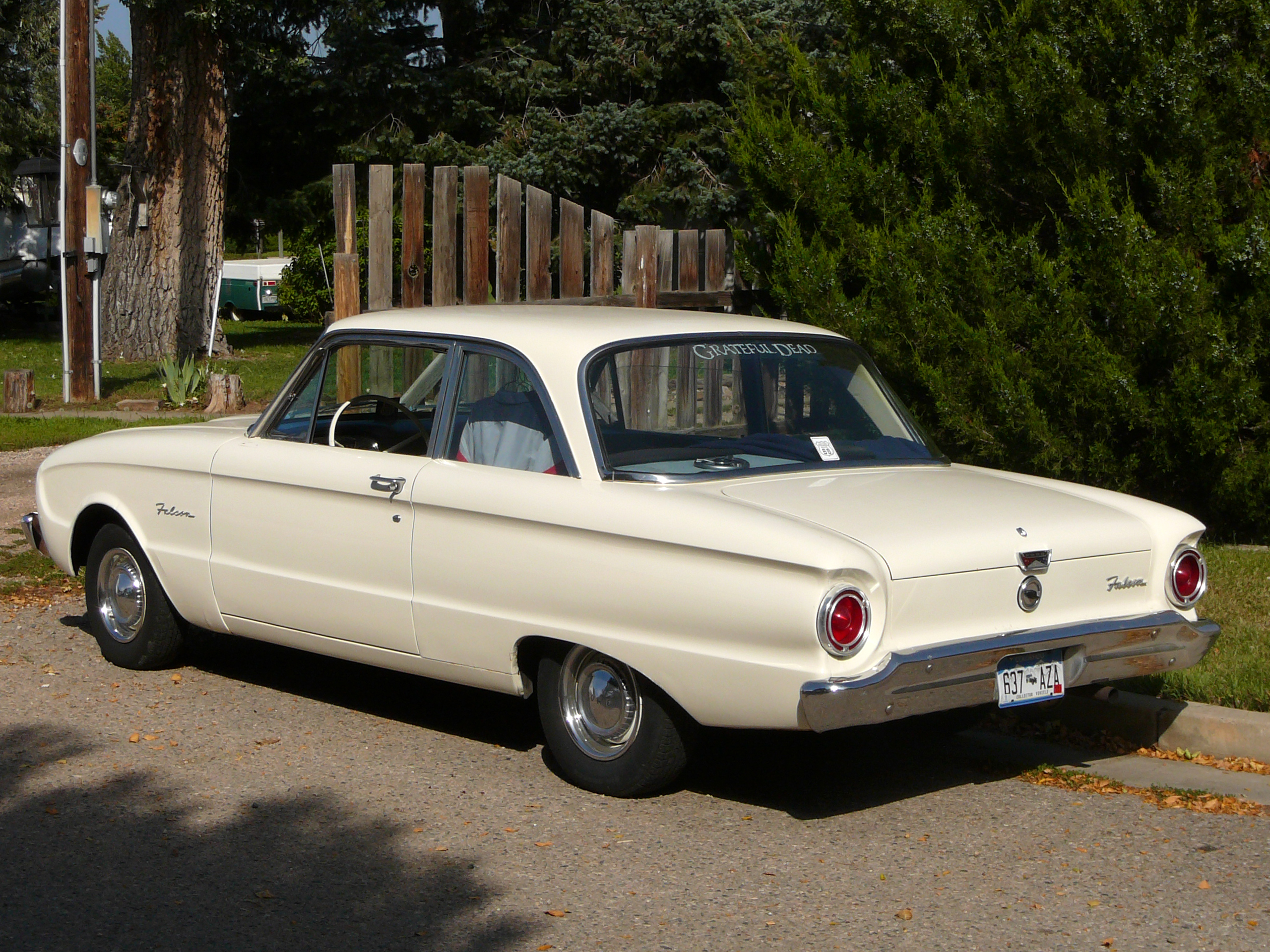 One of the first Ford Falcons in stock form